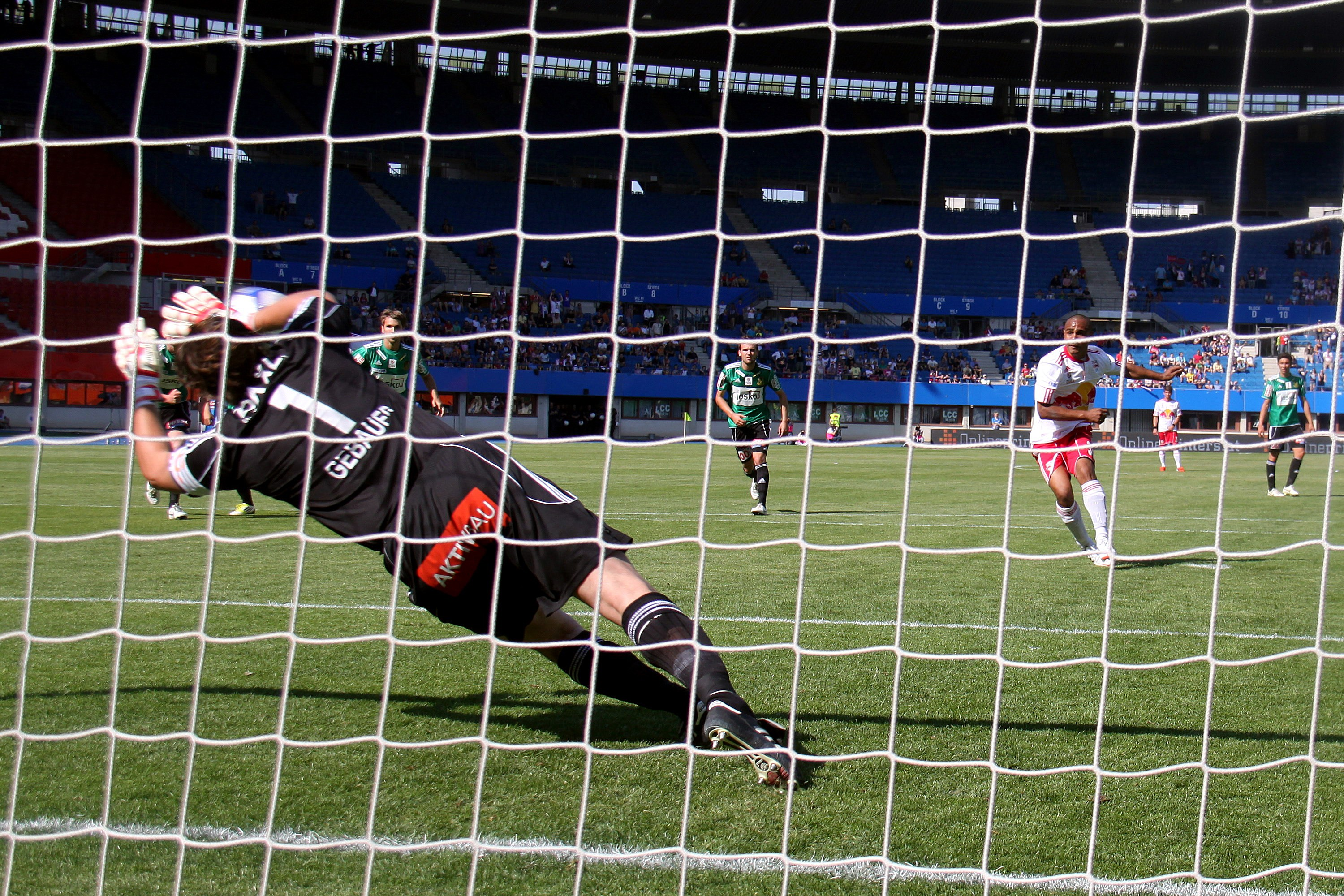 Final of the 2011–12 Austrian Cup FC Red Bull Salzburg vs. SV Ried at 2012-05-20 in the Ernst-Happel-Stadion, Vienna 3:0 (2:0). – Leonardo Santiago strikes a penalty vs. keeper Thomas Gebauer for 1:0 (10.). Object location48° 12′ 25.8″ N, 16° 25′ 15.42″ E